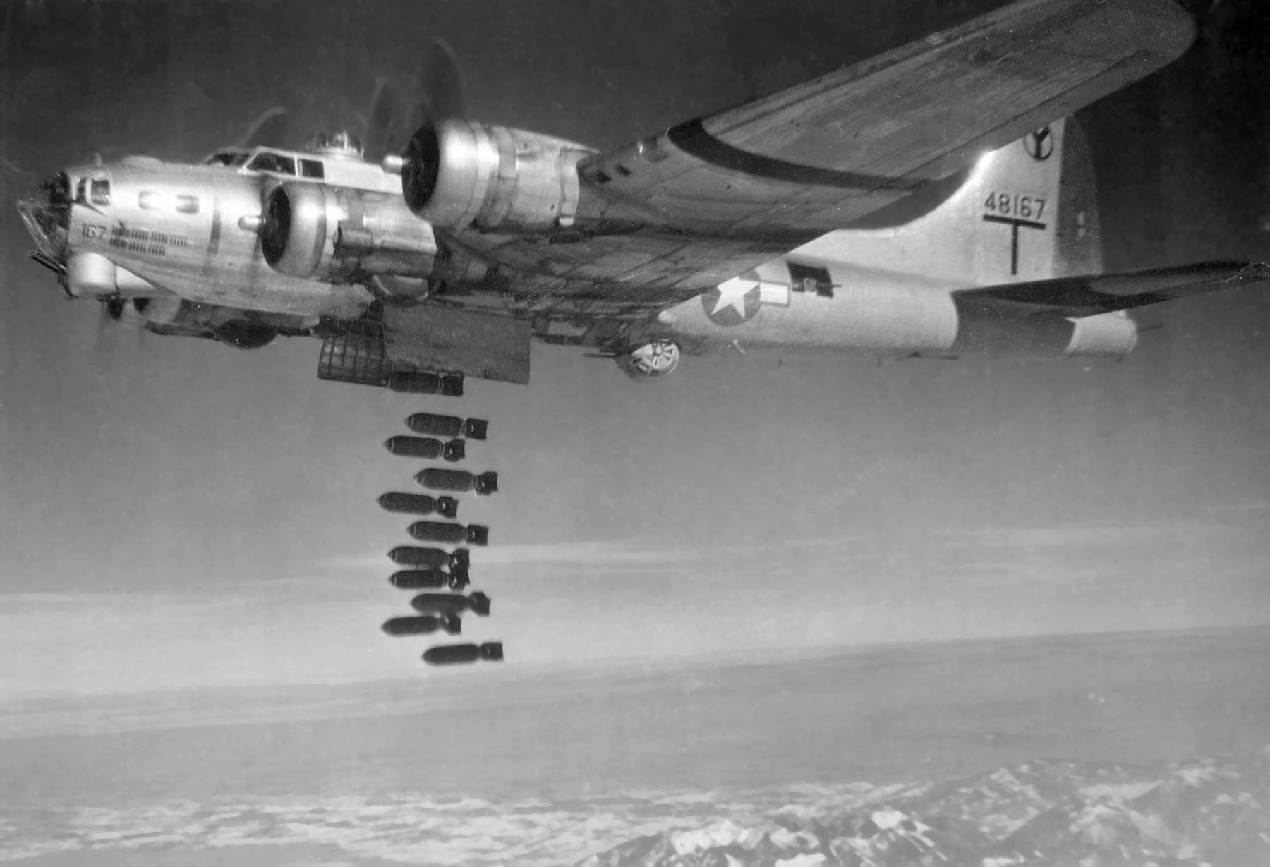 A U.S. Army Air Force Boeing B-17G-50-VE Flying Fortress (s/n 44-8167, built by Lockheed) of the 15th Air Force, 2nd Bomb Group, 96th Bomb Squadron, dropping its bombs in 1944/45. The 2nd BG was based at Amendola, Italy, from 9 December 1943 to 19 November 1945.